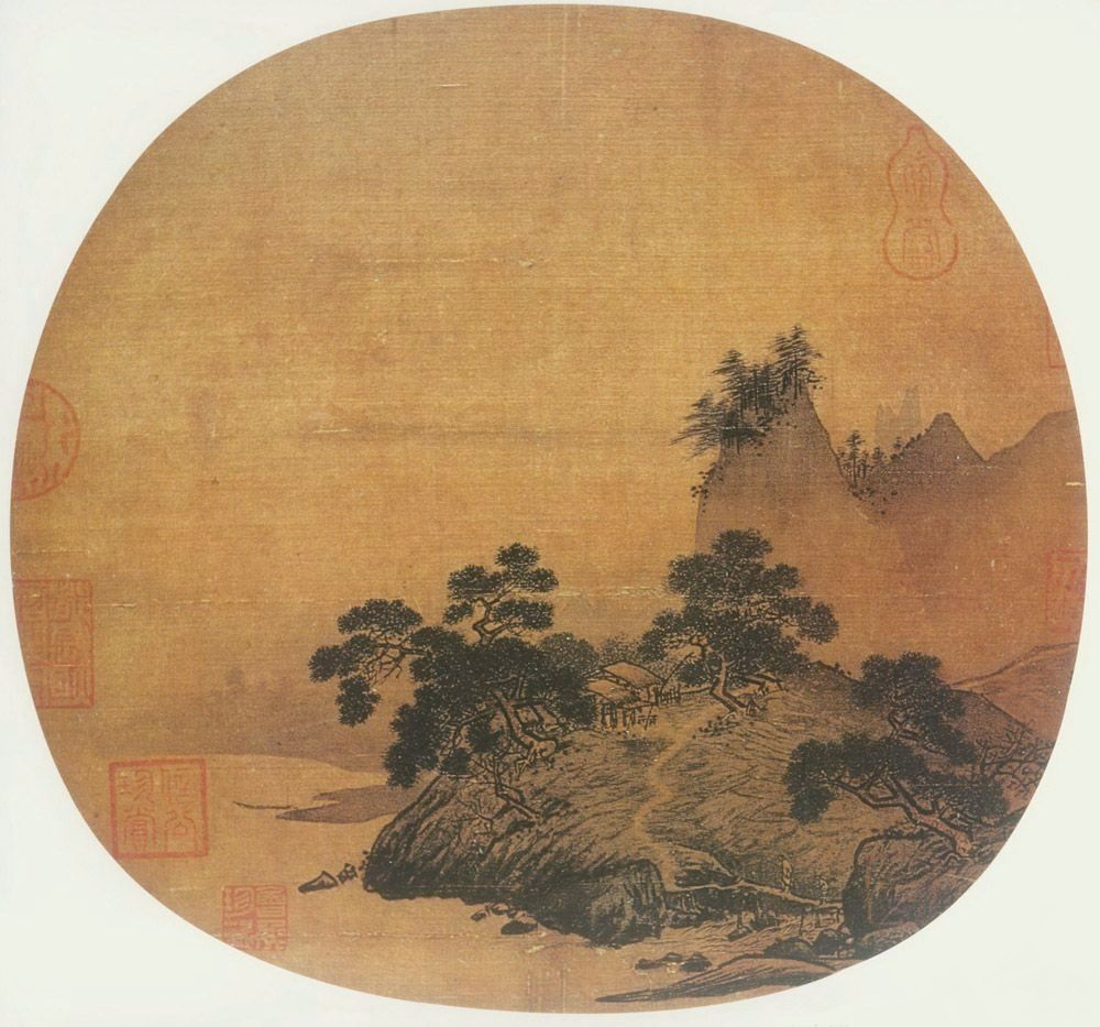 Gao Keming, Fishing village, NPM, Taipei